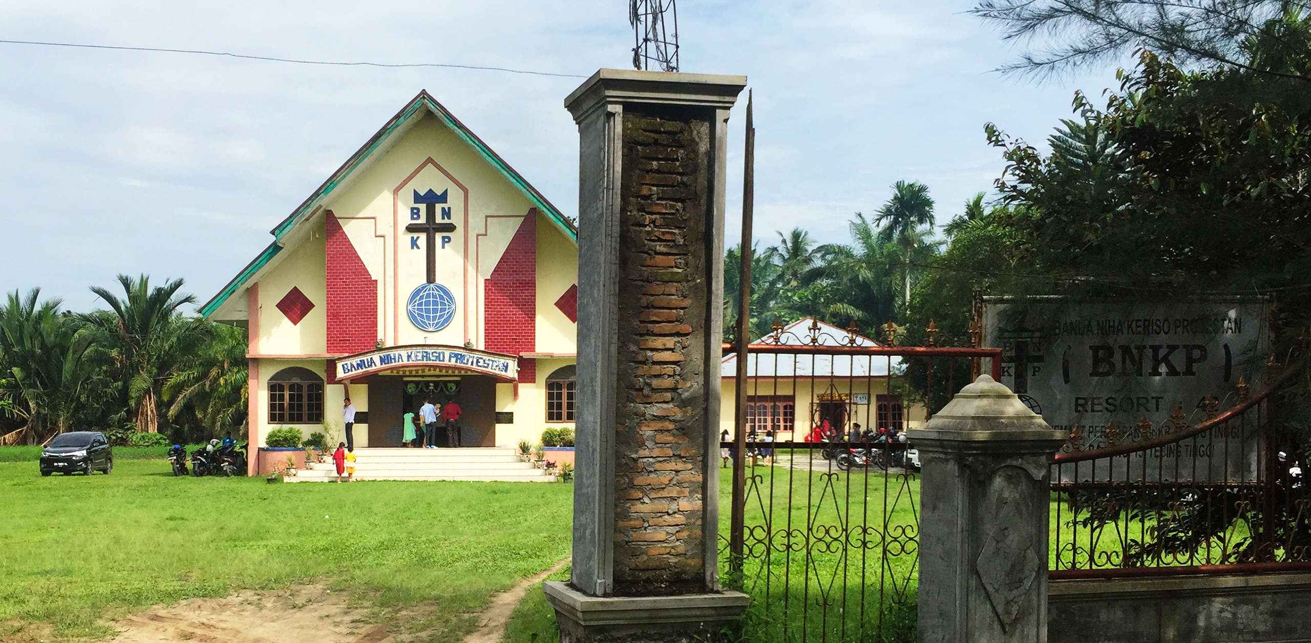 BNKP Tebing Tinggi, Church in Tambangan, Padang Hilir, Tebing Tinggi.